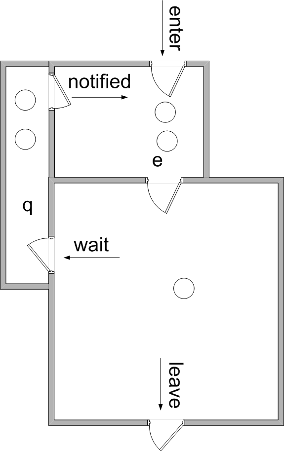 An illustration of the queues involved in a Java style monitor.